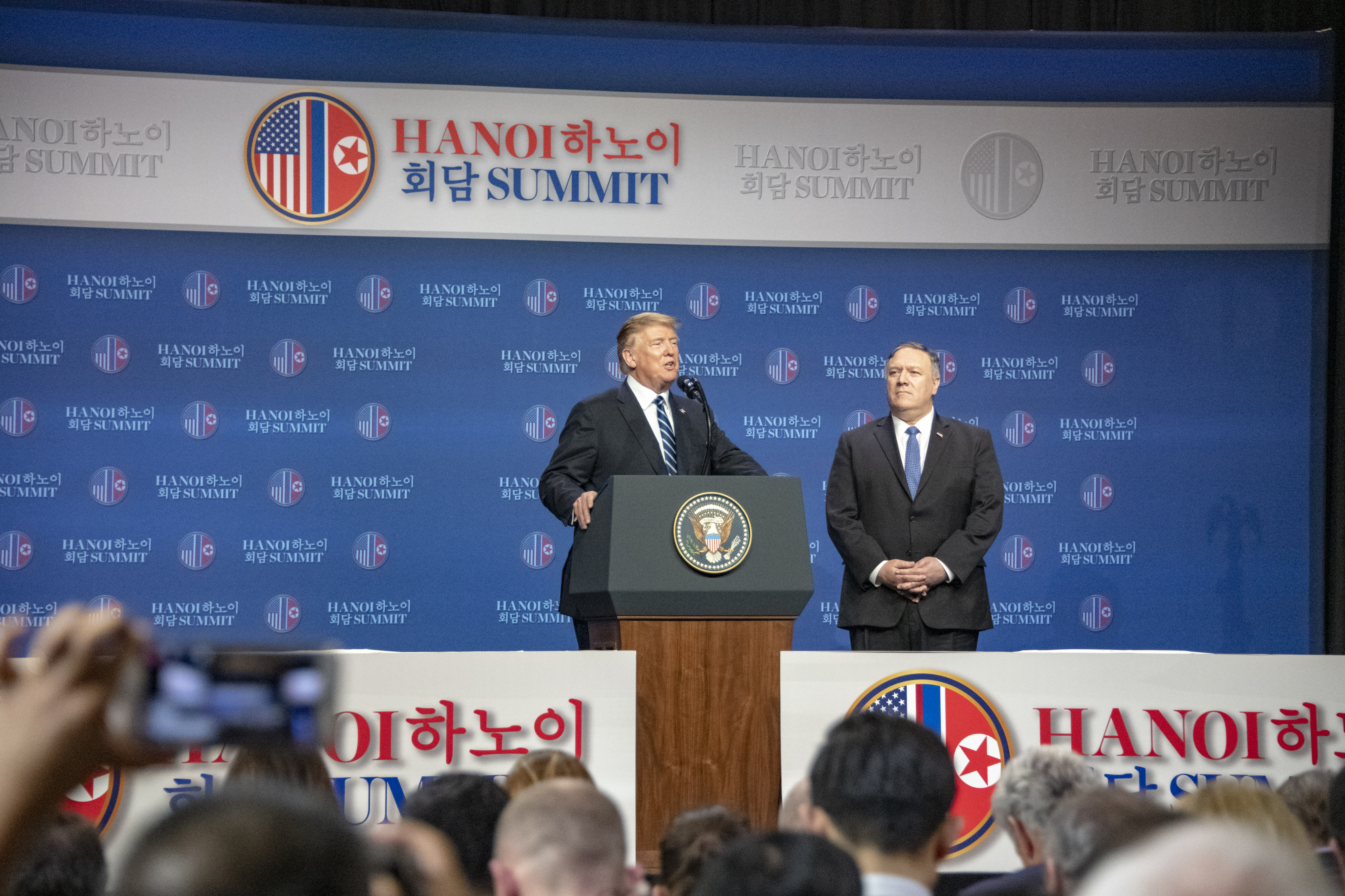 President Donald J. Trump and Secretary of State Michael R. Pompeo participate in a press conference in Hanoi, Vietnam, on February 28, 2019. [State Department photo by Ron Przysucha/ Public Domain]